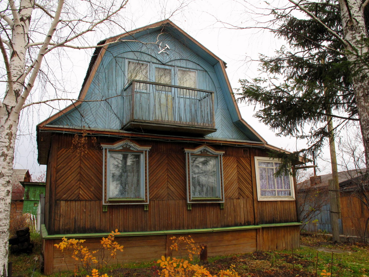 Where I spent a few summers and celebrated my 7th birthday. Mark the hammer and sickle.